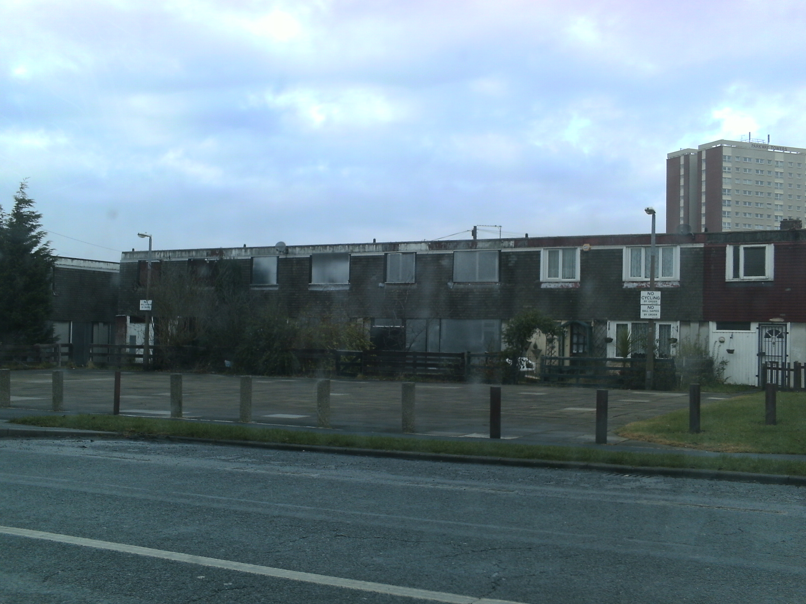 Prefab Housing in South Parkway, Leeds